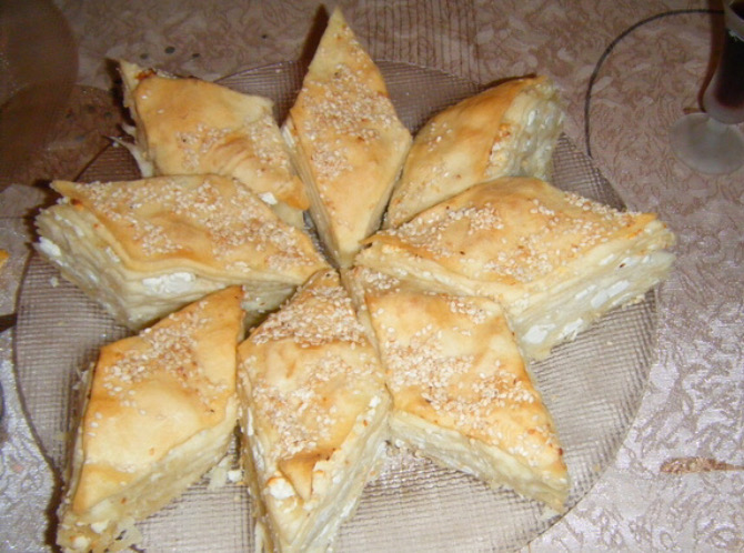 Traditional cheese pie made from dough layers and cow cheese